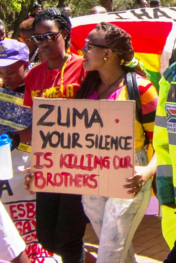 Soweto Pride 2012